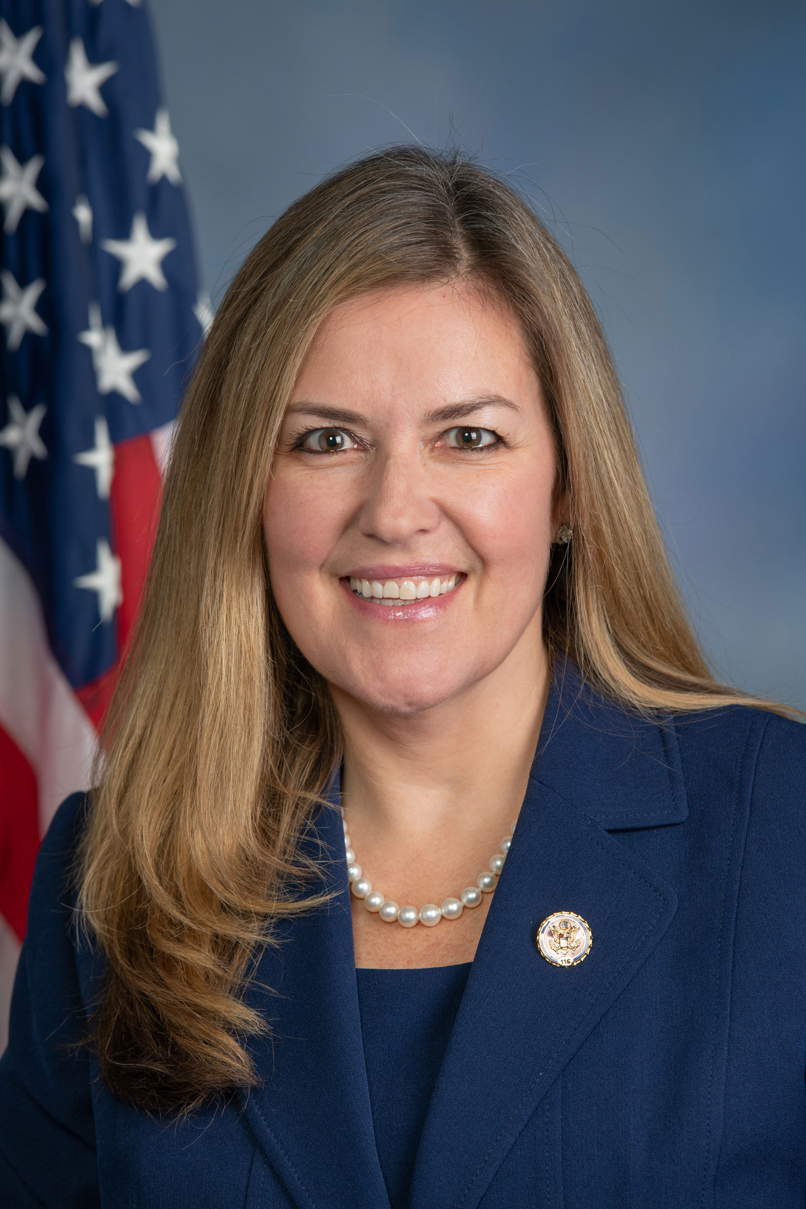 The official headshot of Rep. Jennifer Wexton (D-VA)